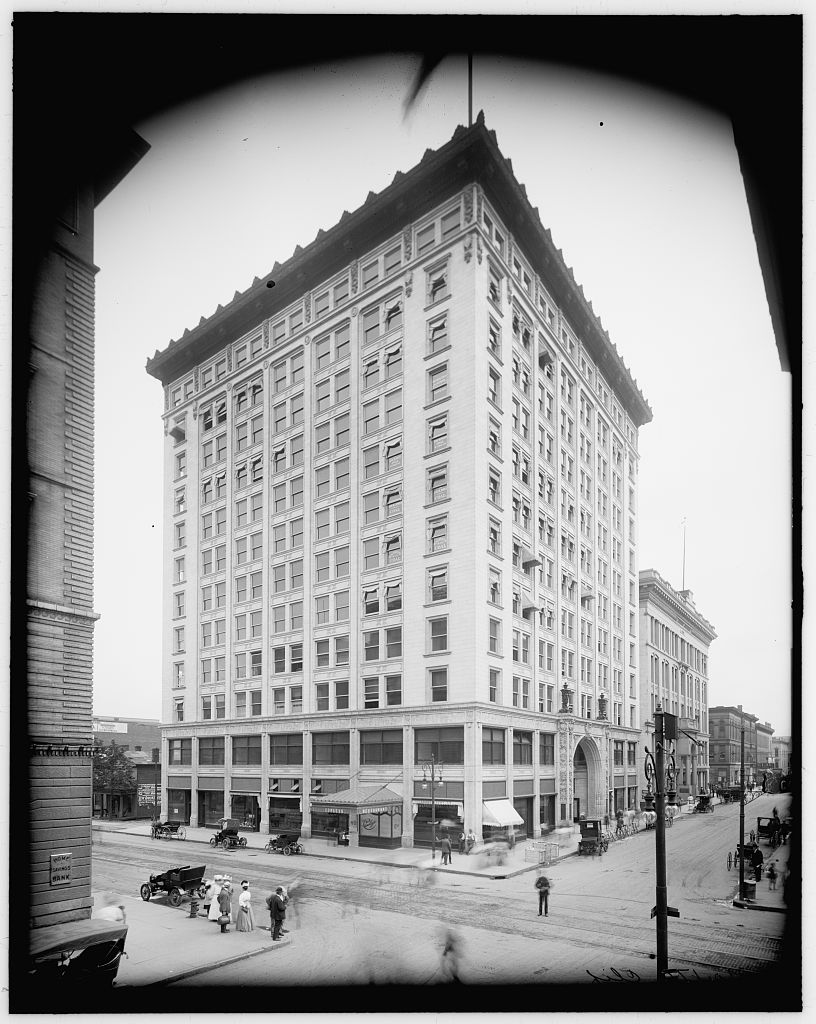 Detroit Publishing Co. photo of Ohio Building taken between 1905 and 1920.